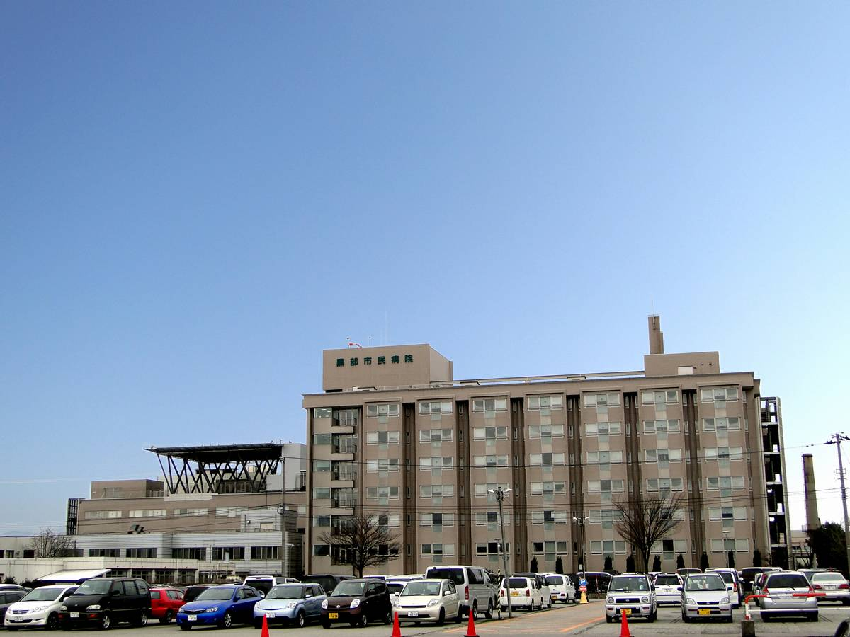 Kurobe City Hospital south-side view and Heriport.